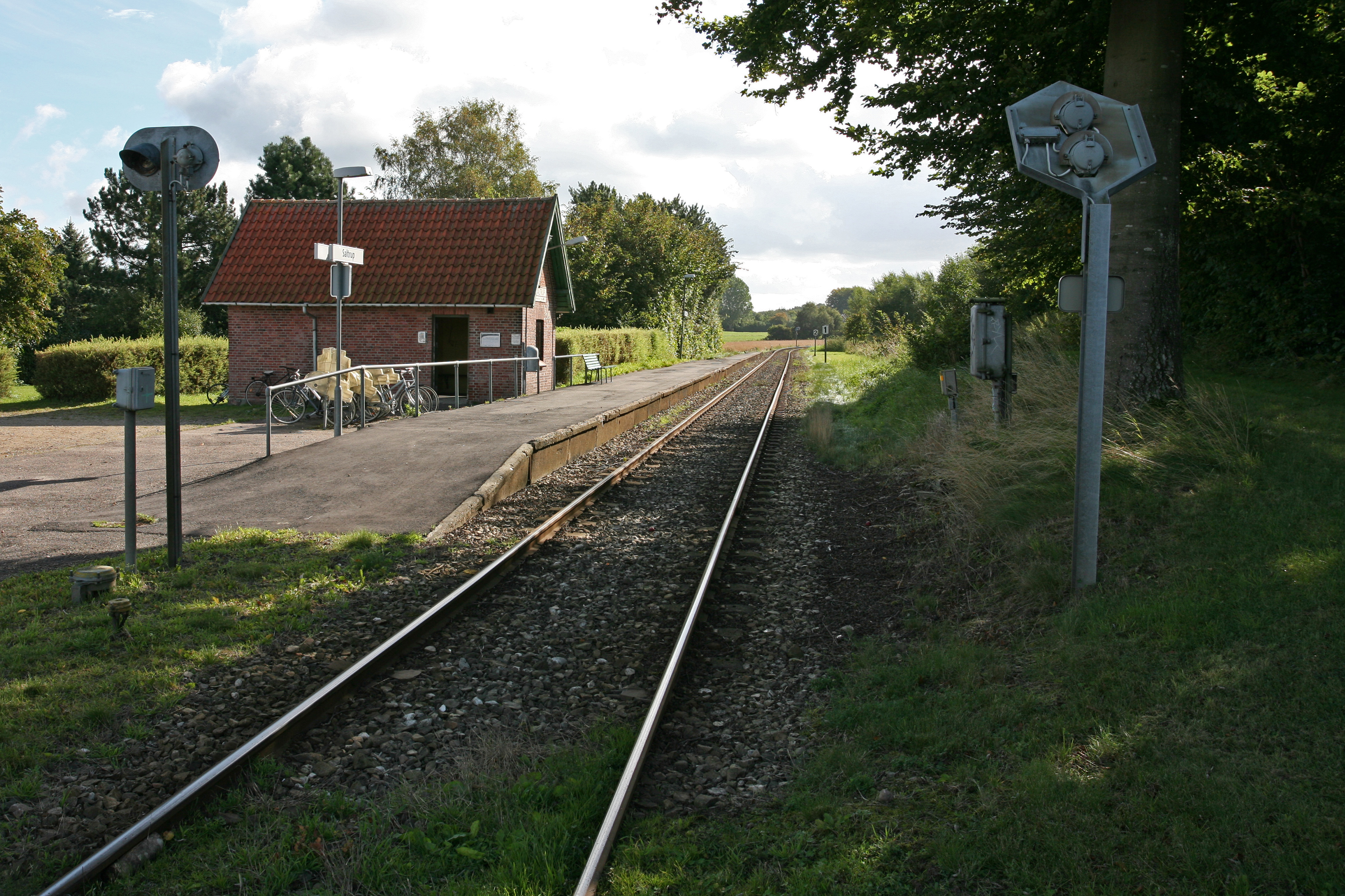 Picture of Saltrup Railway Station (Saltrup - Denmark)